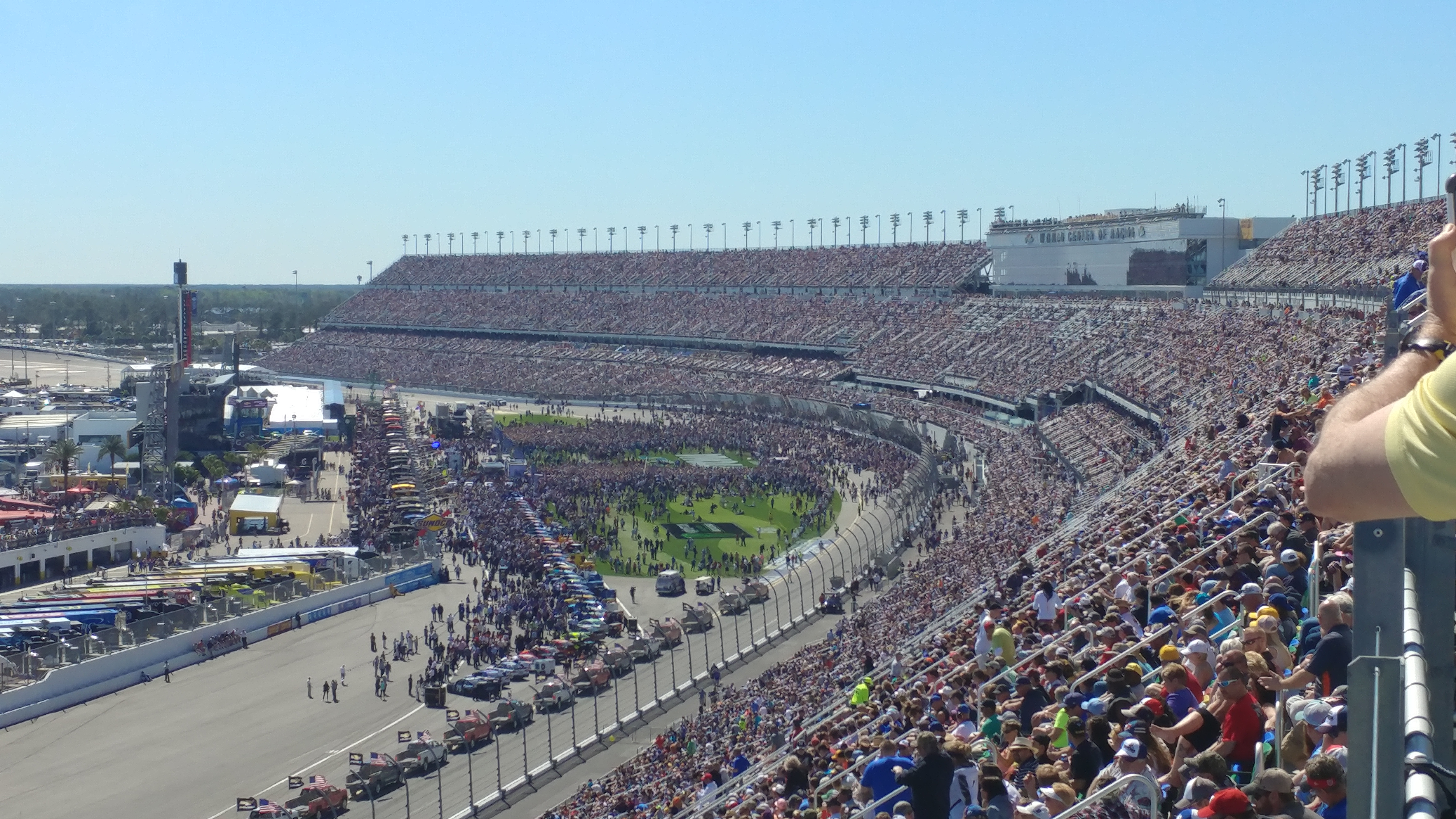 Photo taken from section 408 of Daytona International Speedway during the pre-race activities for the 2017 running of the Daytona 500.